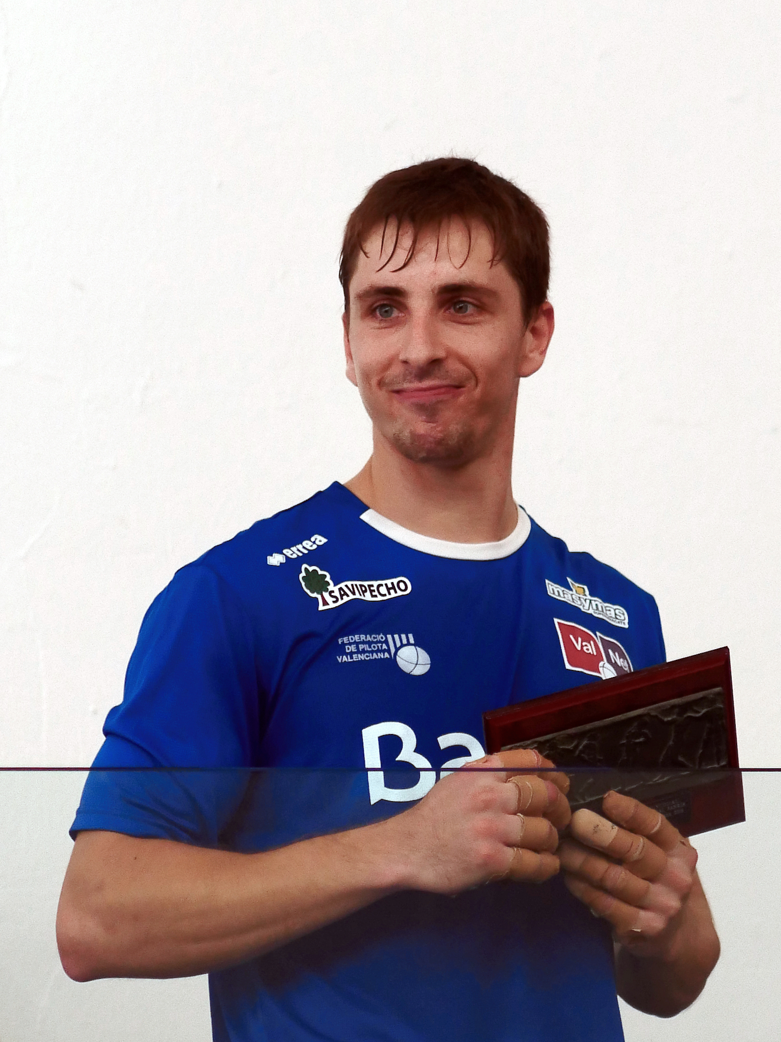 Valencian pilotari Puchol II right after winning the 2016 one-on-one final. Aragonés: O pelotaire valencián Puchol II en o trinquet de Pelayo.